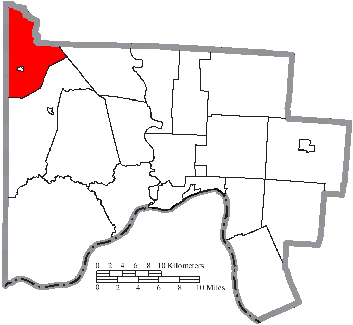 Map of the municipal and township boundaries of Scioto County, Ohio, United States, as of the 2000 census, with the location of Rarden Township highlighted. Township borders are shown only in unincorporated areas in order to differentiate incorporated and unincorporated areas more clearly.